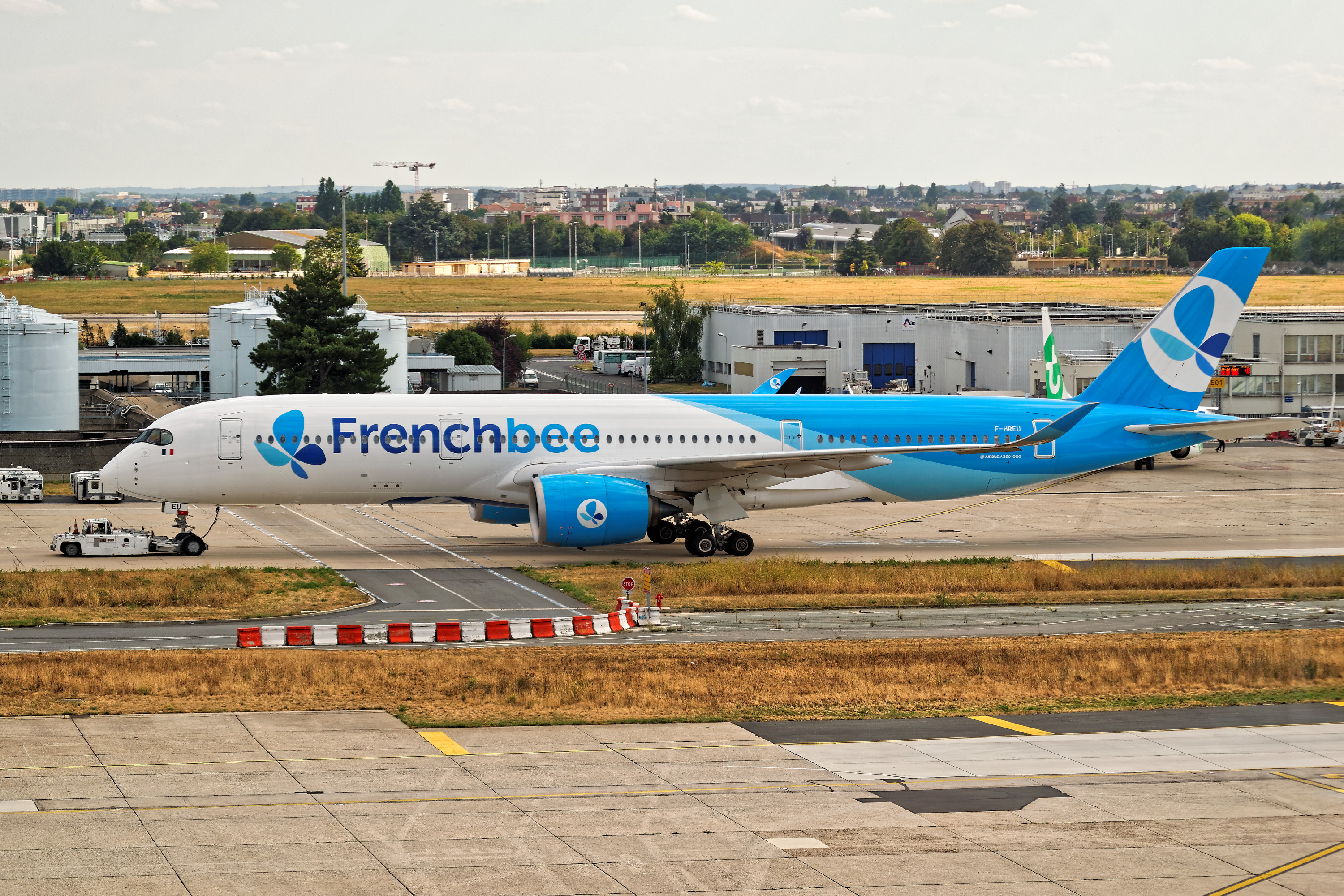 F-HREU - Airbus A350-941 - French Bee